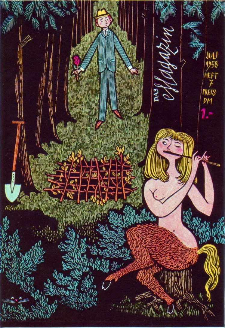 Title-page of the periodical "Das Magazin".